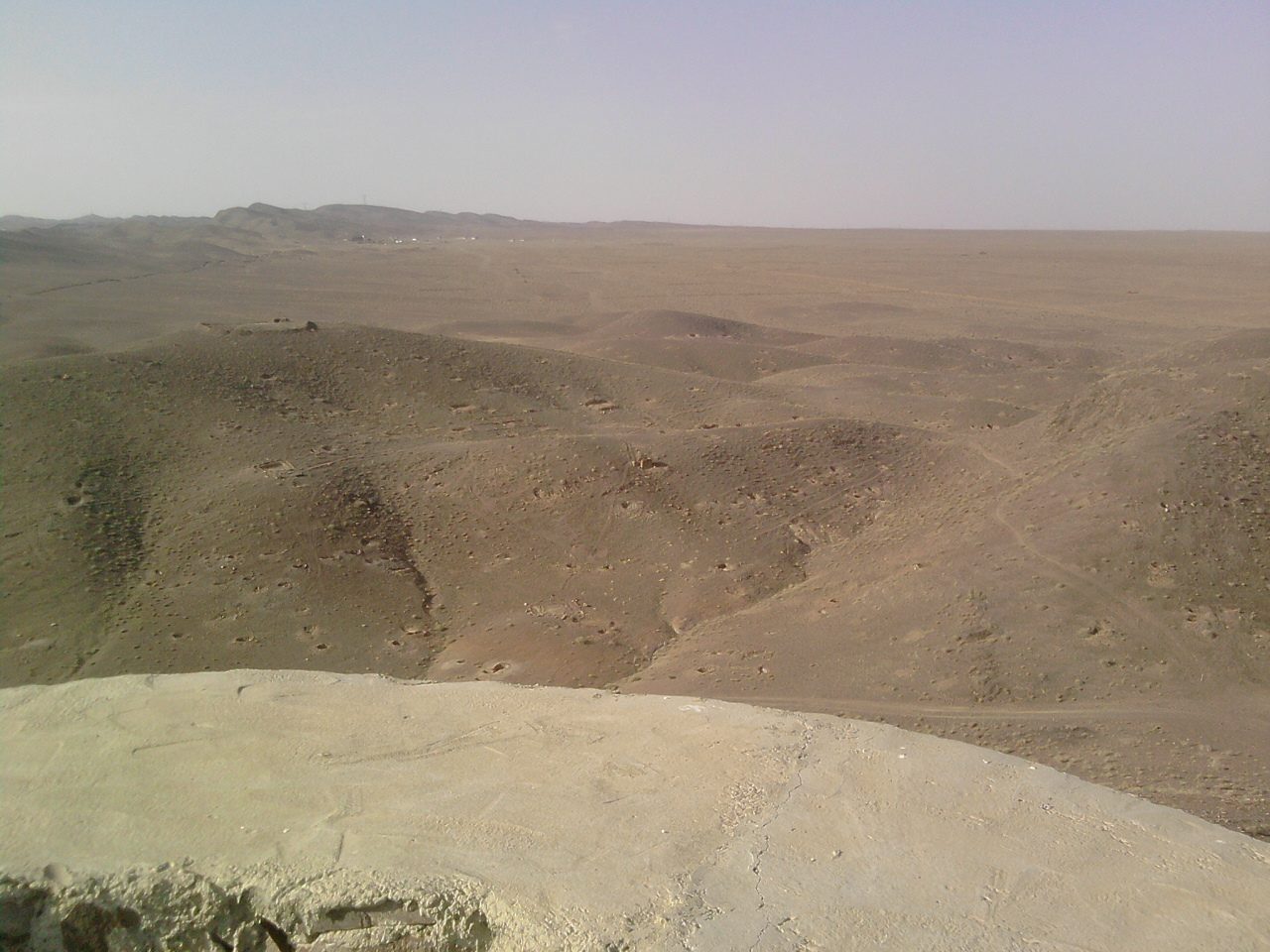 East view from Sangi-Aliabad Tower